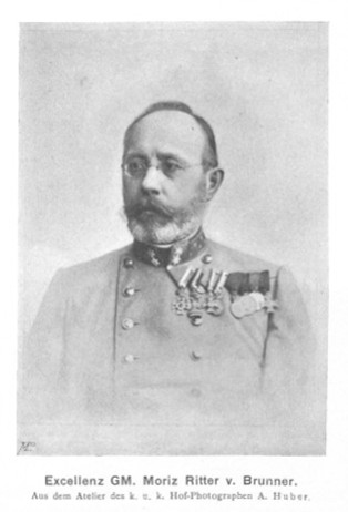 Photograph of Moritz von Brunner (1839-1904), Austrian fortification architect